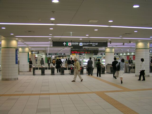 The entrance of Tokyu Toyoko Line/Minato Mirai 21 Line